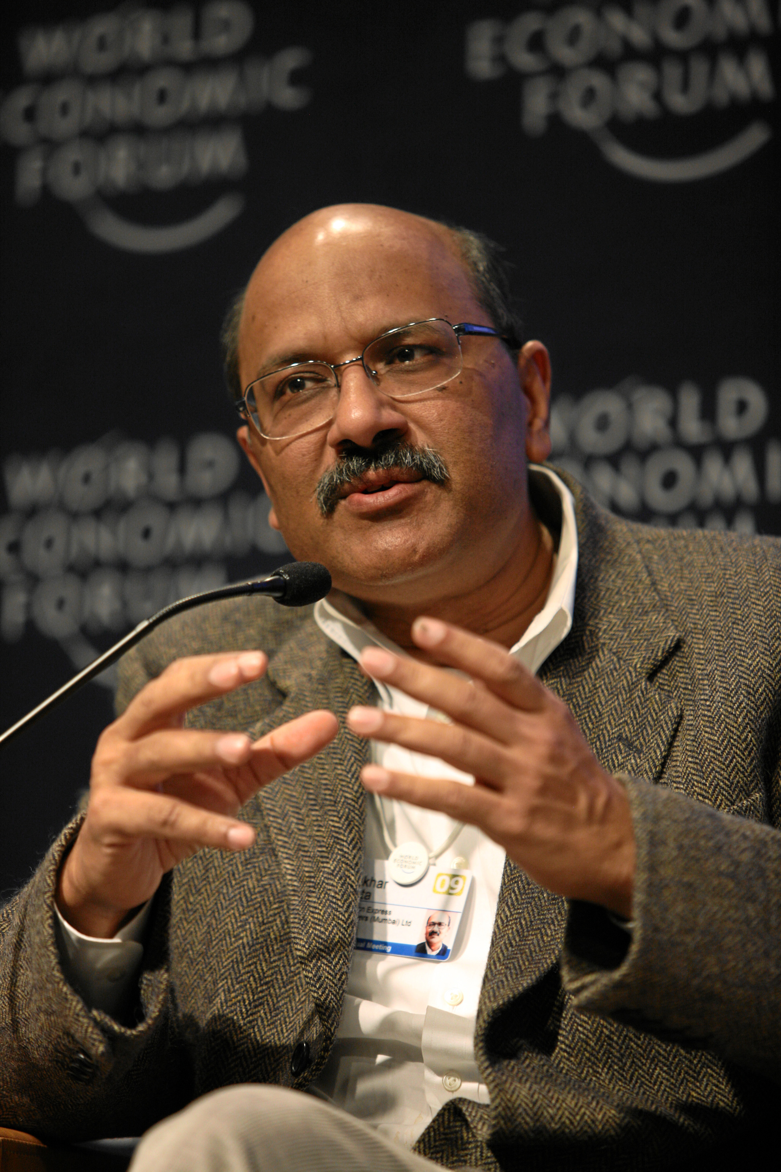 Shekhar Gupta at 2009 WEF Annual Meeting in Davos.